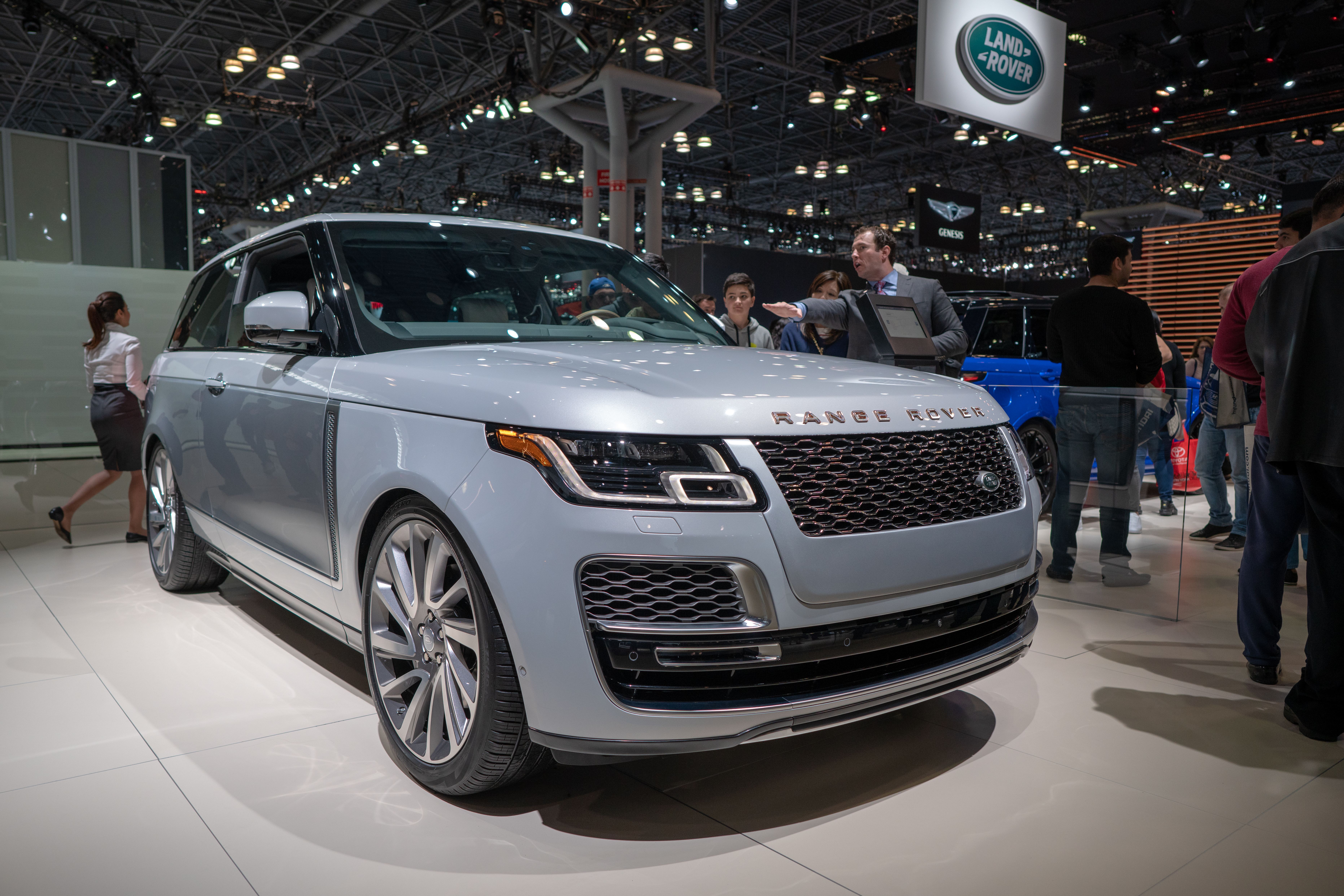 Land Rover at the New York International Auto Show NYIAS